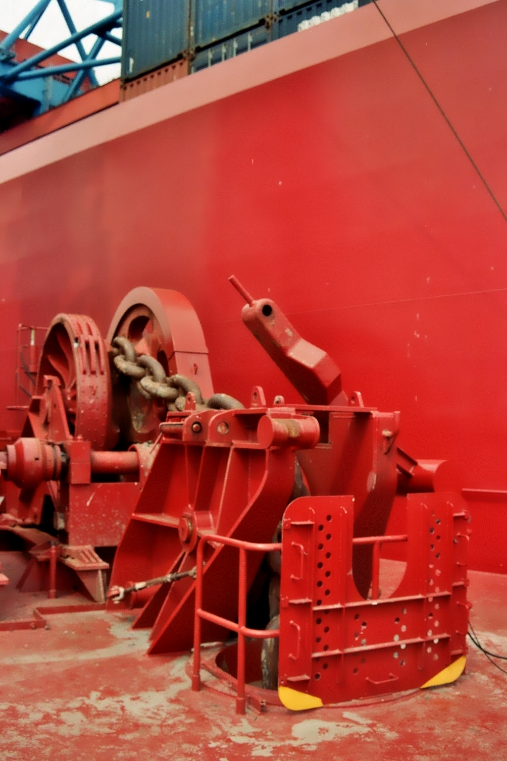 Port anchor windlass of Hapag-Lloyd Container ship Hamburg Express